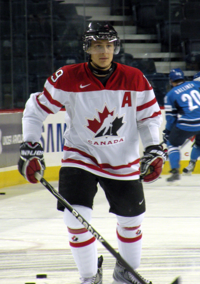 Canadian junior forward Stefan Della Rovere prior to an exhibition game against the Finnish junior team at Calgary, Alberta.